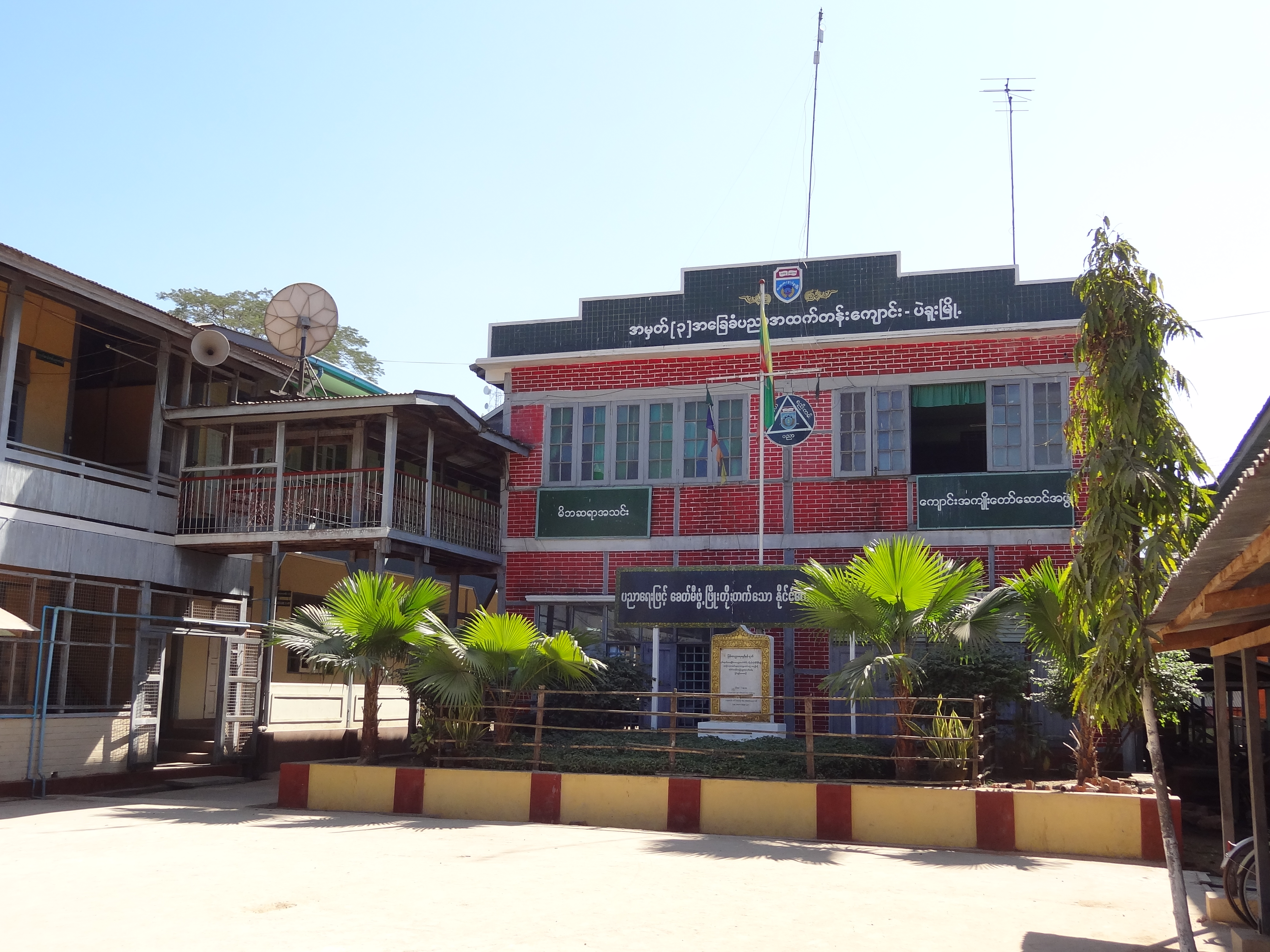 မြန်မာဘာသာ: Office Building of BEHS No 3, Bago